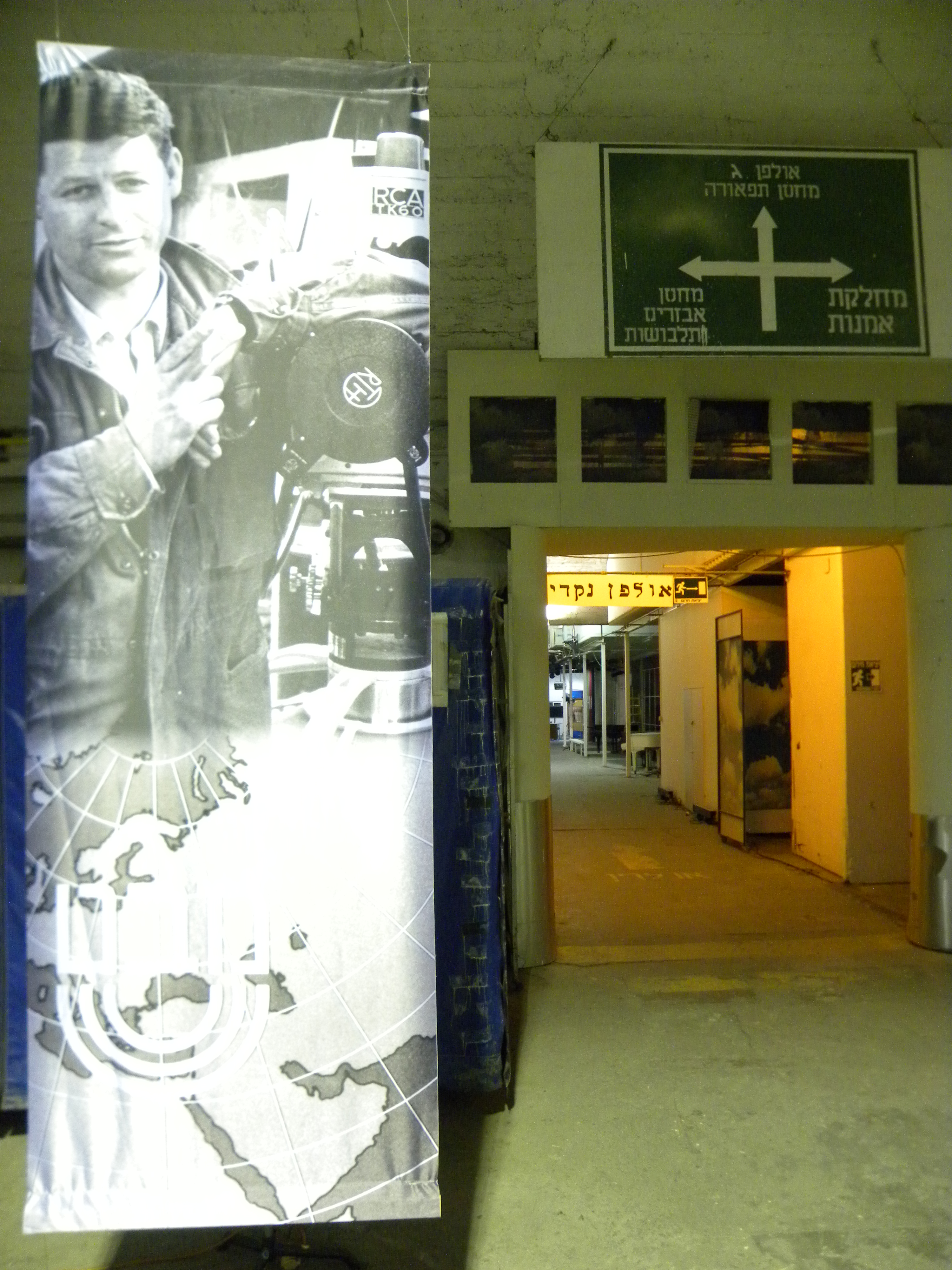 Israel Broadcating Authority Channel 1, in Romena, Jerusalem